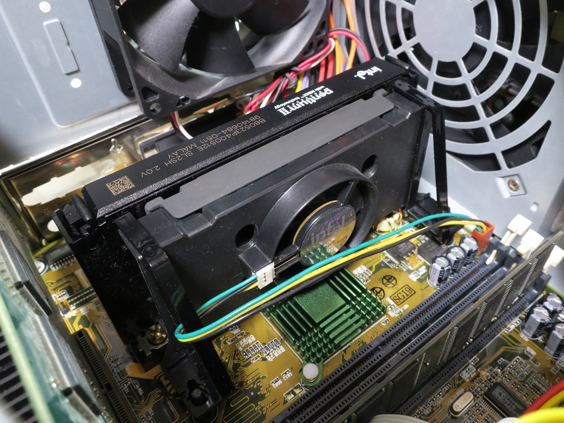 Pentium II (Deschutes) CPU SECC cartridge installed on the motherboard.